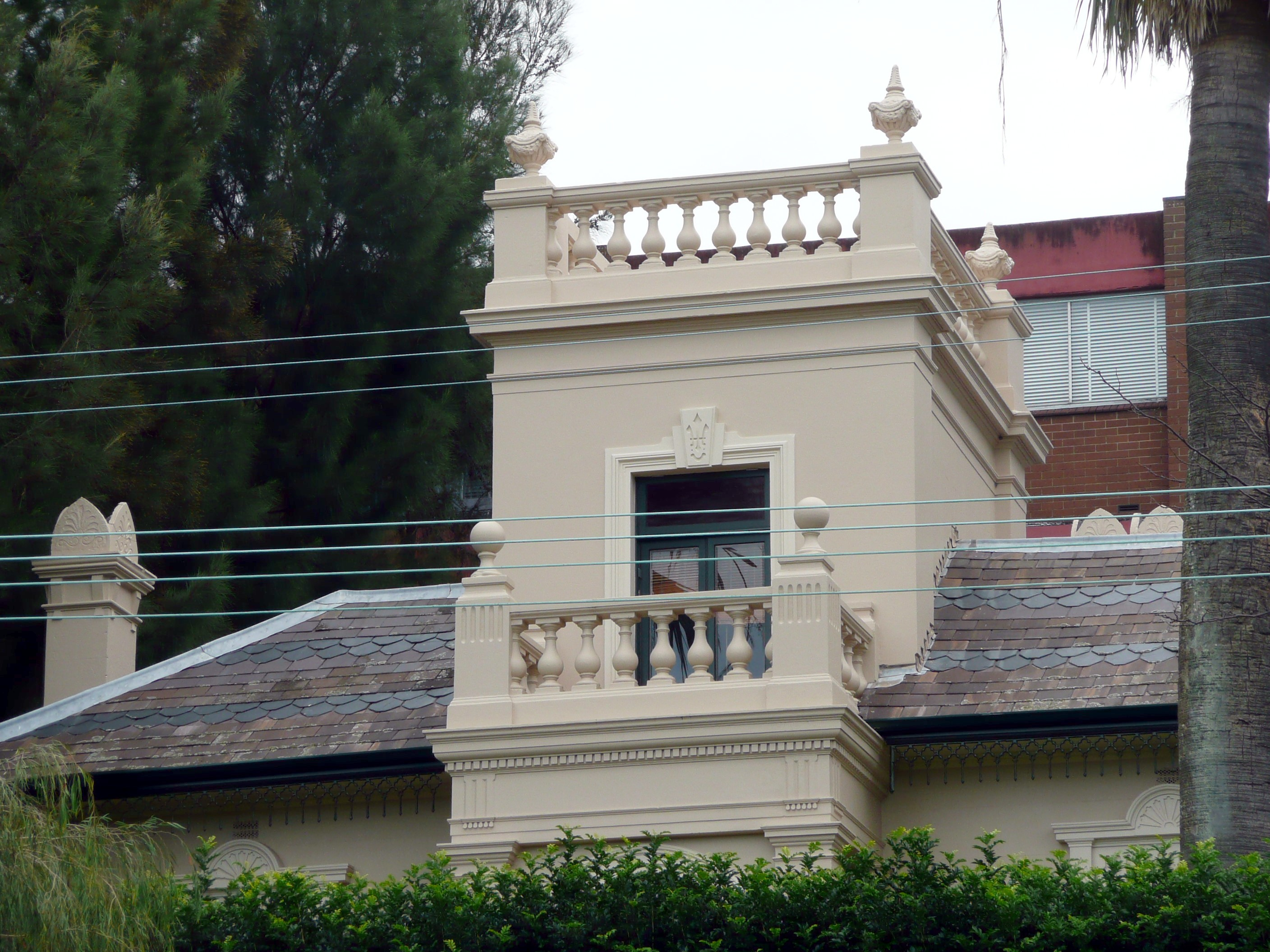 Oybin, Johnston Street, Annandale, Sydney